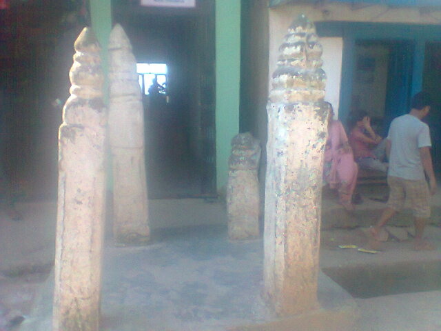 Charkhamba (Chaturstambha)